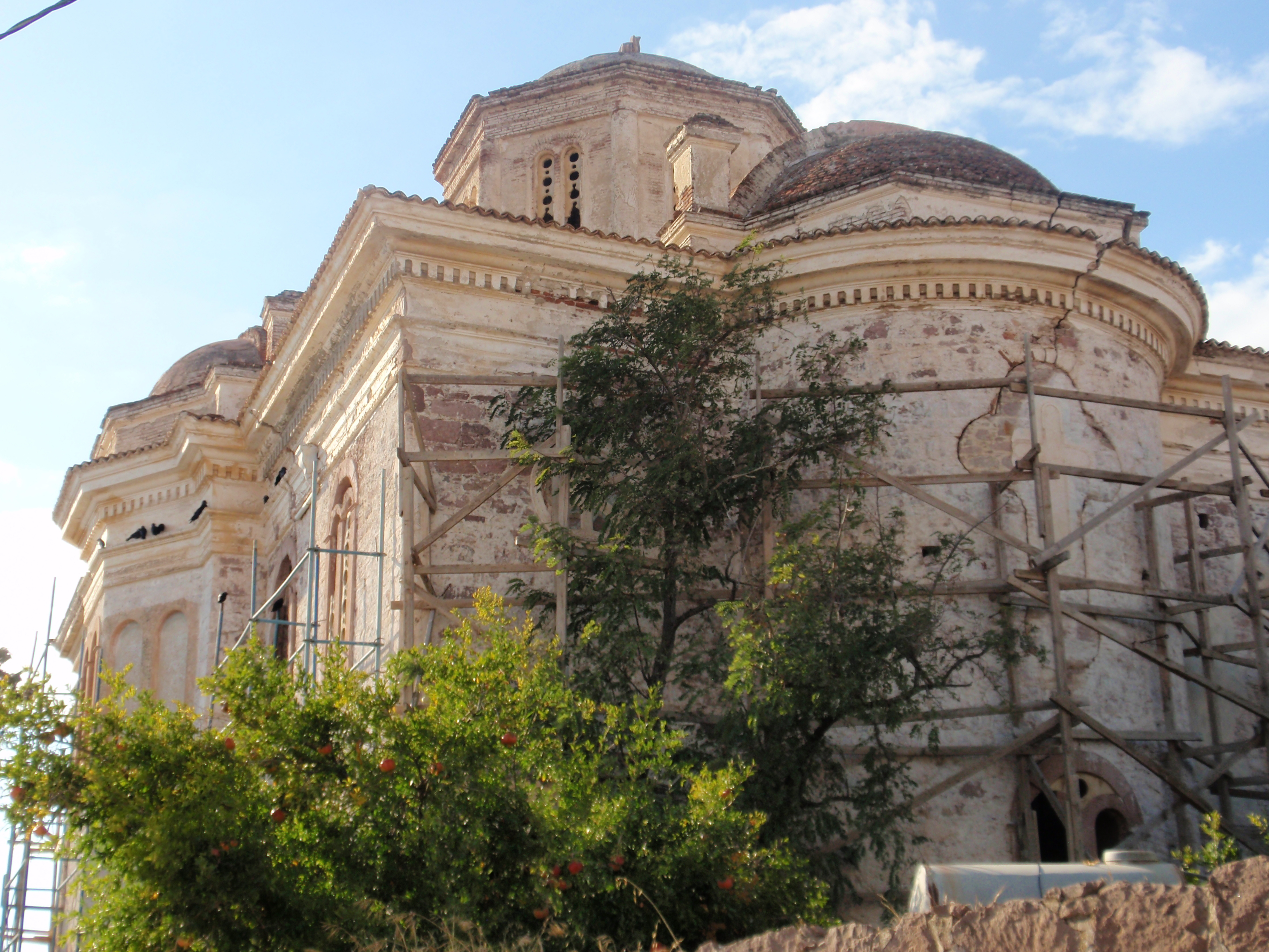 Taksiyarhis Church, in cunda ayvalık